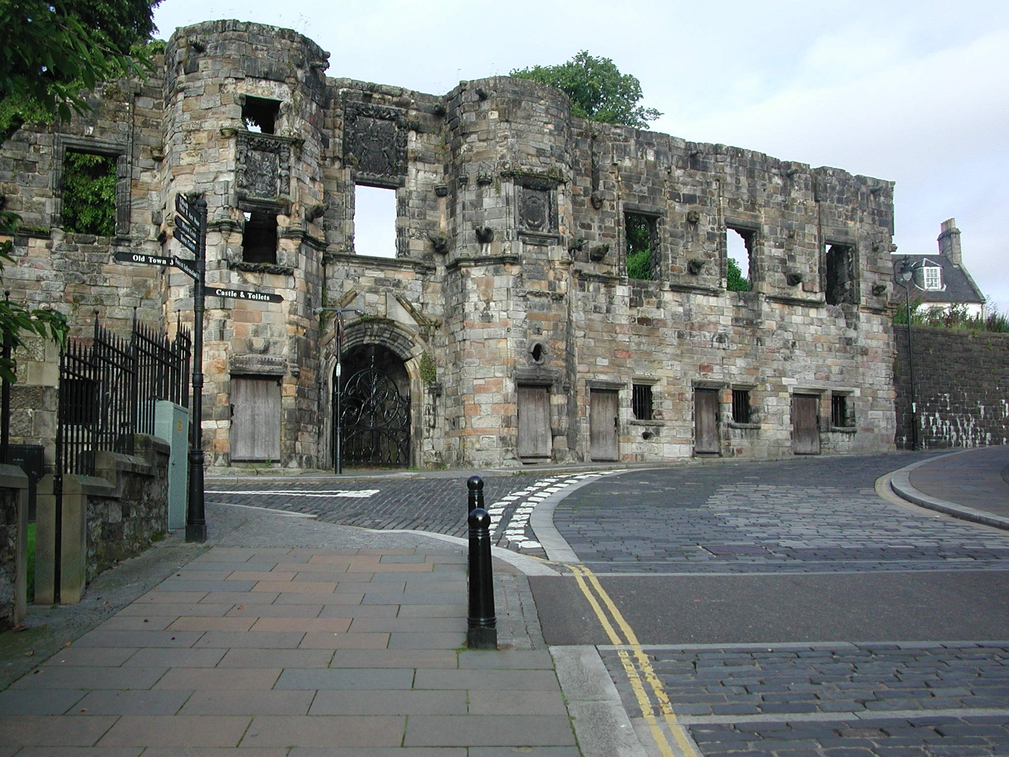 A photo of the Earl of Mar's residence of the 16th century, in Stirling, scotland.